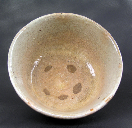 Ido Korea. Claymarks